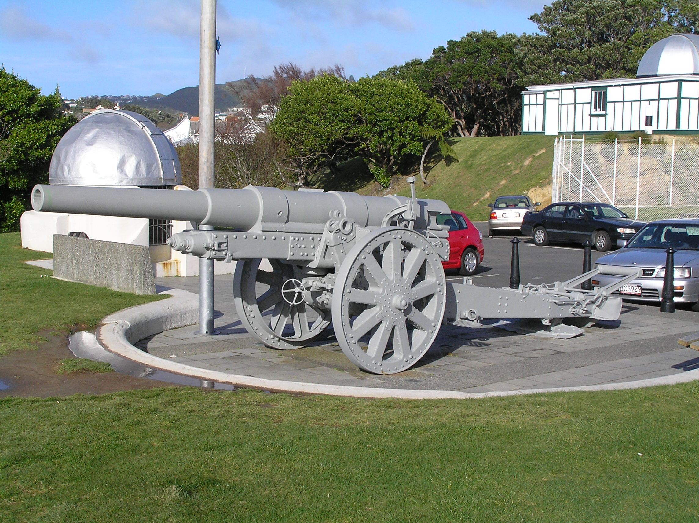 A picture of the Krupp 135mm Field Gun captured by the Wellington Regiment during the First World War and on display in the Wellington Botanical Gardens.